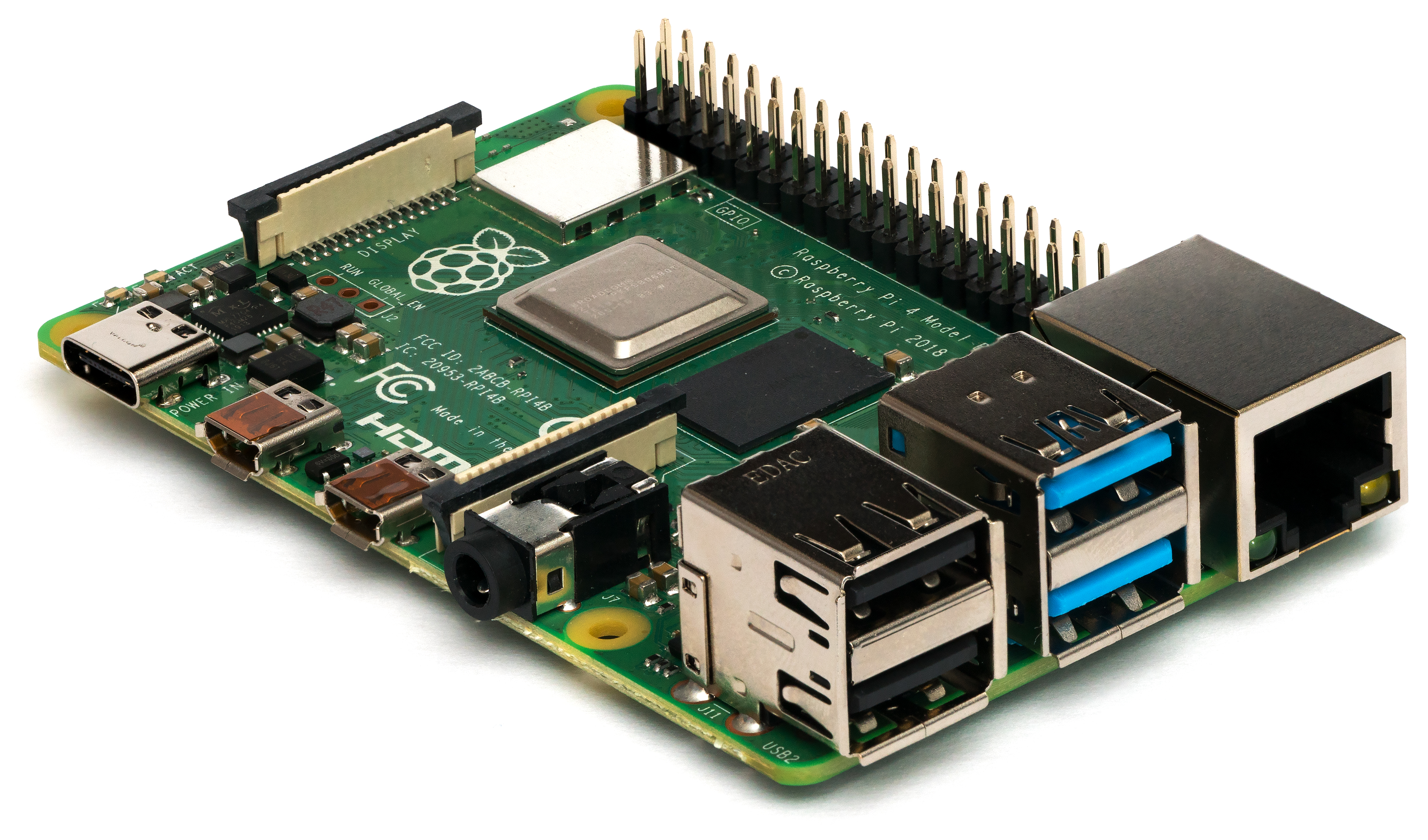 Raspberry Pi 4 Model B from the side.